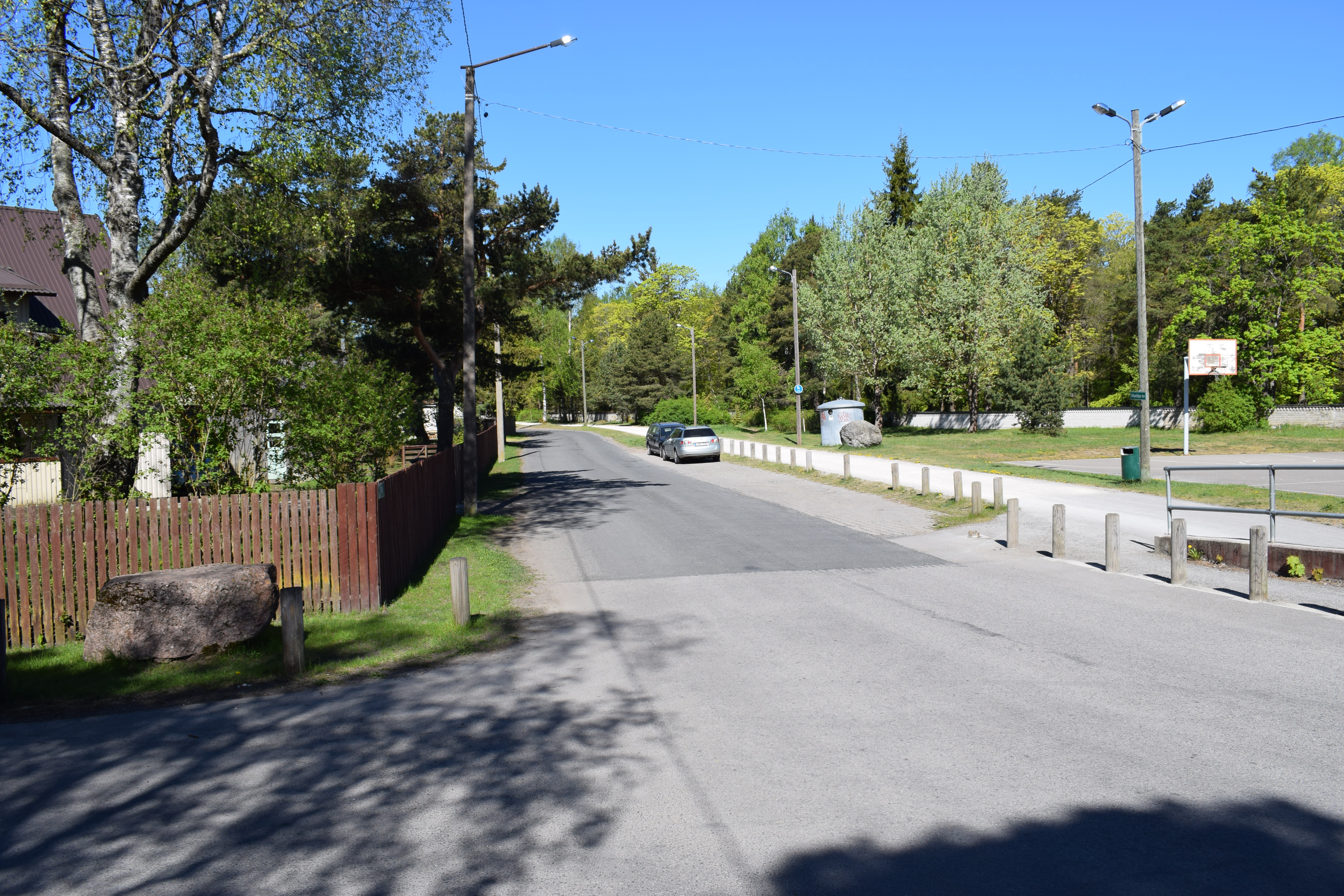 Piiri street